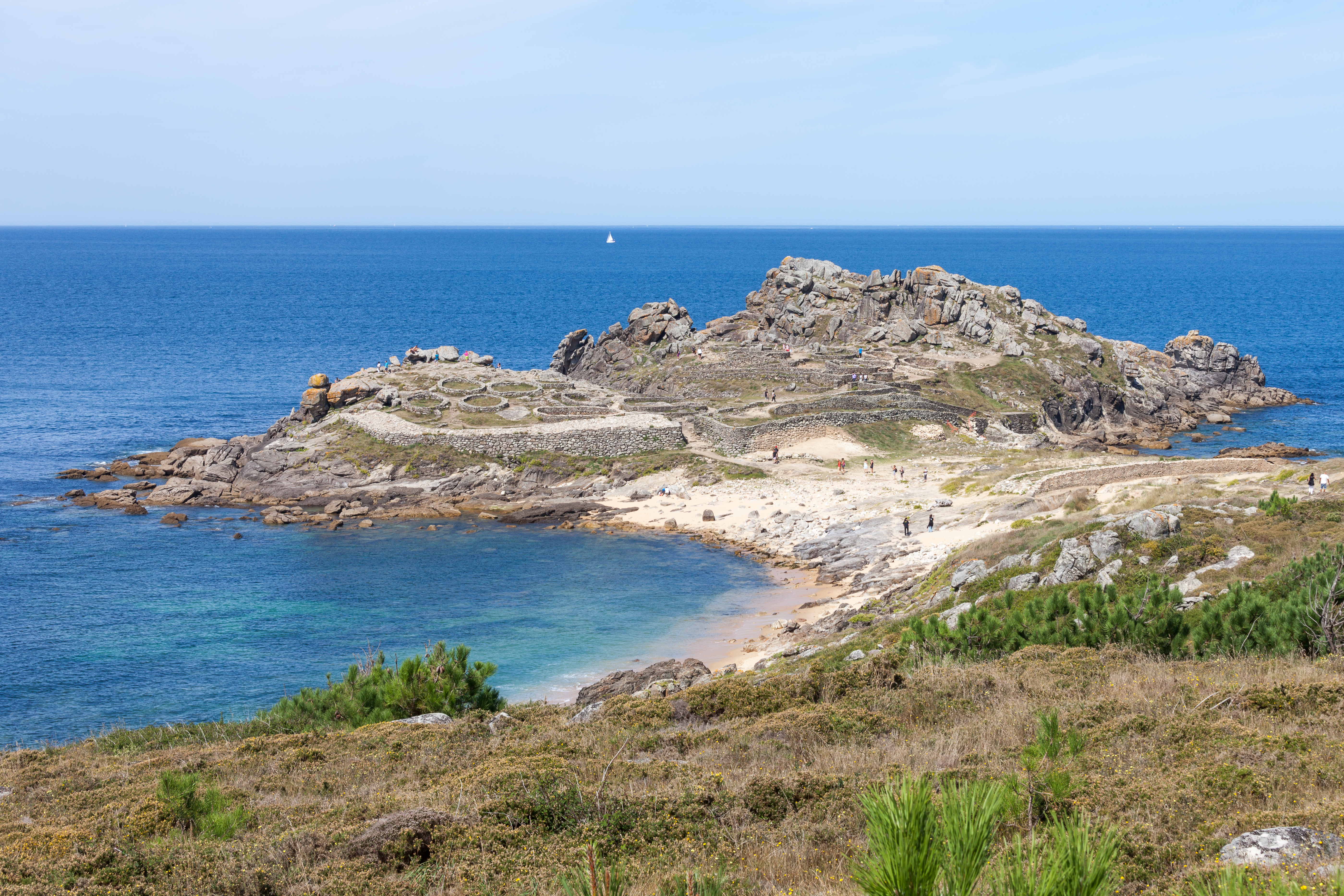 Hill fort of Baroña, Porto do Son, Galicia (Spain).